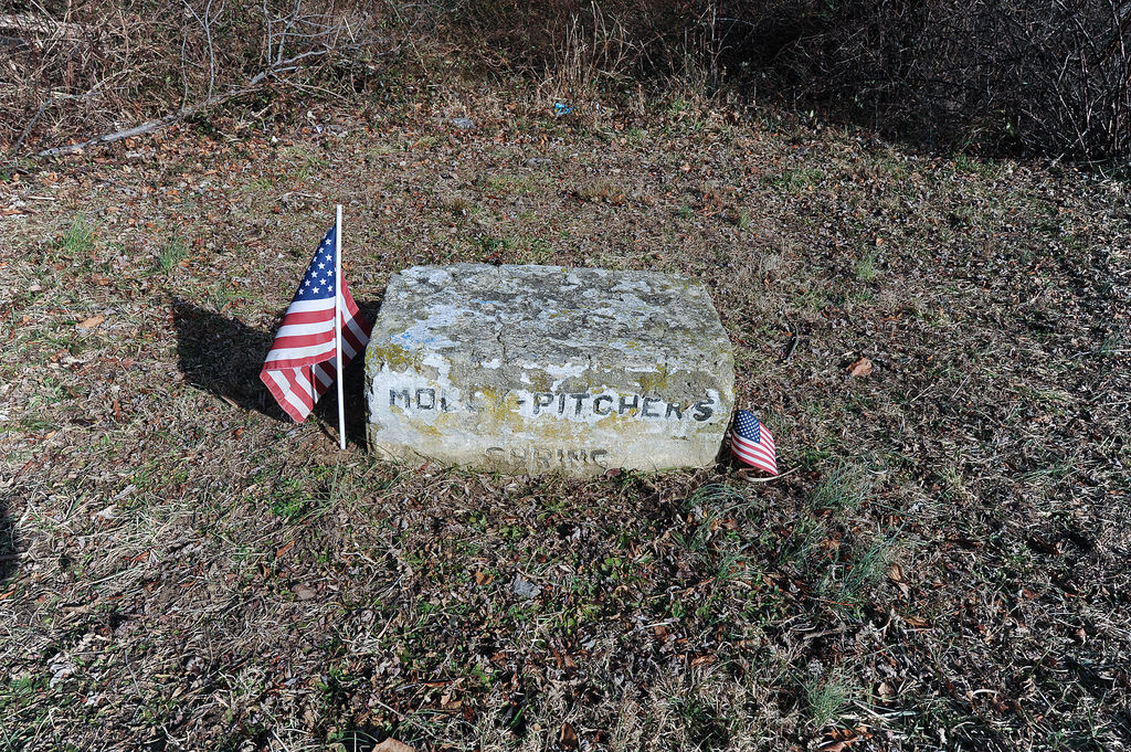 Molly Pitcher Spring historical marker at Monmouth Battlefield, Monmouth County, New Jersey